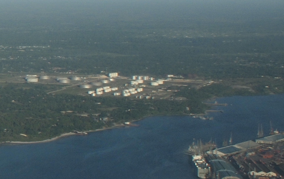 The former TIPER refinery in Dar es Salaam used presently as an oil terminal.